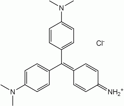 Description: Chemical structure of Methyl Violet 2B Author, date of creation: selfmade by Shaddack, 3 November 2005 Source: self-made Copyright: Public Domain (PD) Comments: b/w hires PNG; ChemDraw